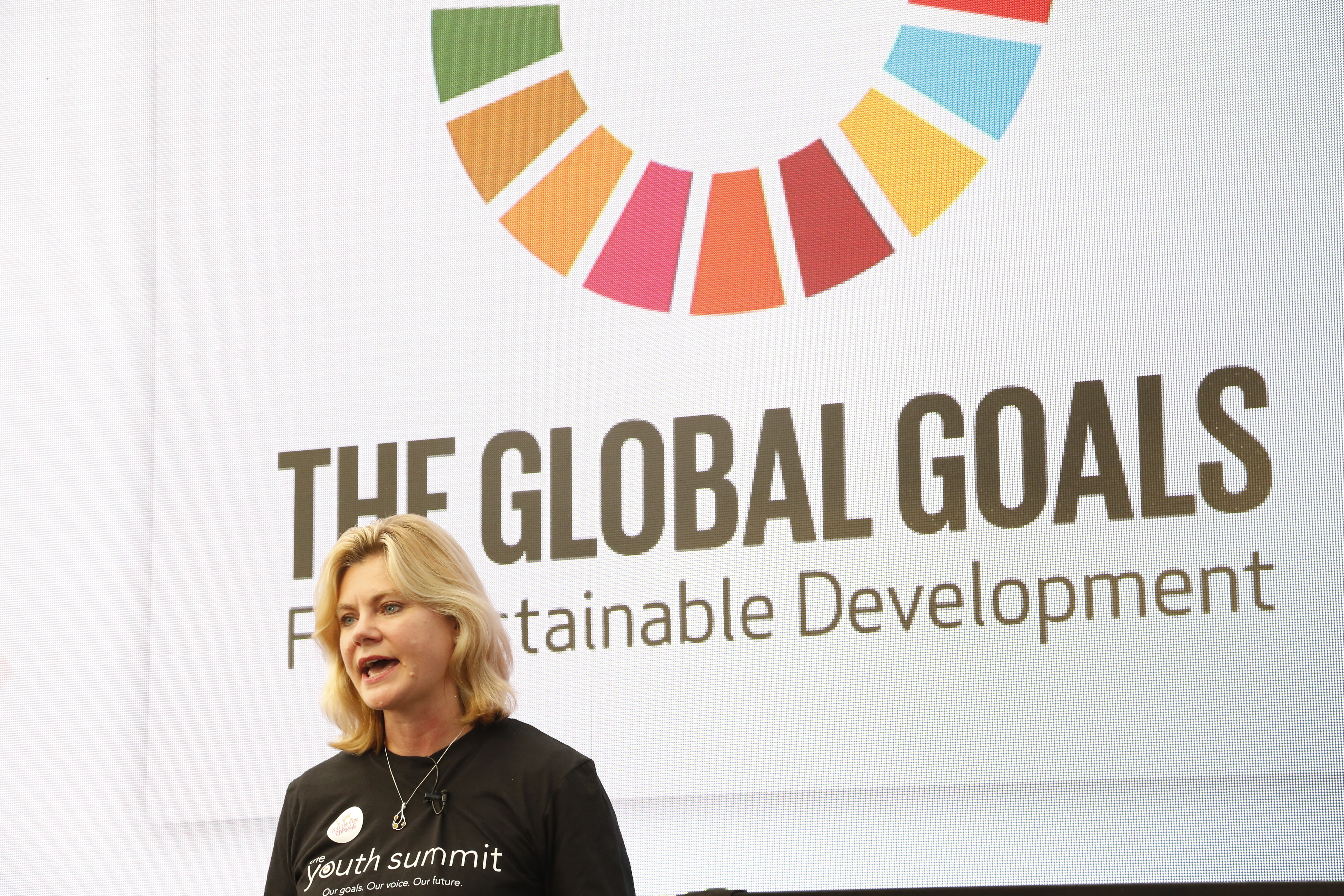 Former Development Secretary Justine Greening speaks at the Youth Summit. Background On 12 September 2015 hundreds of young people came together at the #YouthSummit in London to raise their voices about the future of their world. September also sees the largest-ever gathering of world leaders at the United Nations in New York to sign up to new Global Goals that aim to eradicate poverty for good. The Youth Summit gave young people a chance to get their voices heard on the global issues they care about. They have the power, commitment and energy to make sure the world delivers on promises made in New York. Picture: Jessica Lea/DFID Free-to-use photo This image is posted under a Creative Commons - Attribution Licence, in accordance with the Open Government Licence. You are free to embed, download or otherwise re-use it, as long as you credit the source as 'Jessica Lea/DFID'.